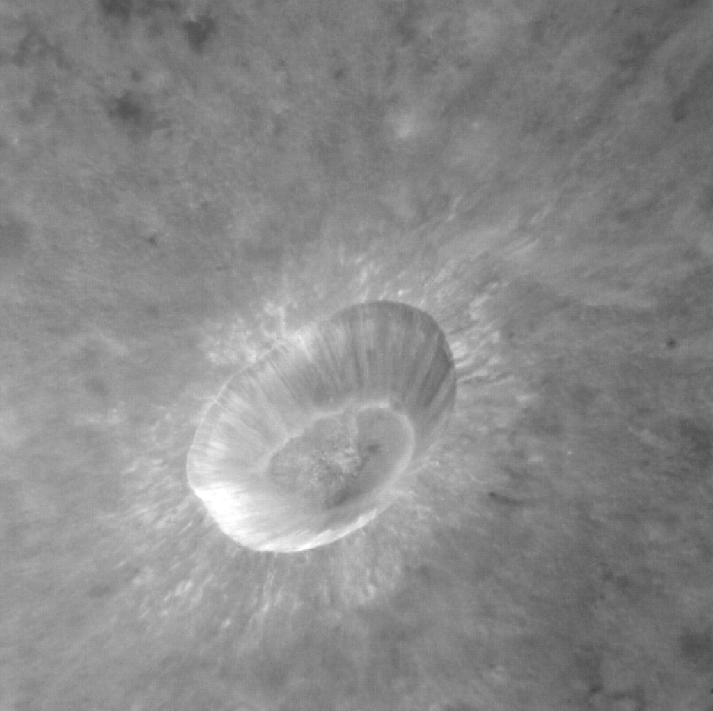 Oblique view of Petipa crater on Mercury. MESSENGER Narrow Angle Camera image. Approximate north is in lower left. Emission Angle: 48.3 Incidence Angle: 29.5 Latitude: 11.4 Longitude: 21.1 Phase Angle: 35.9